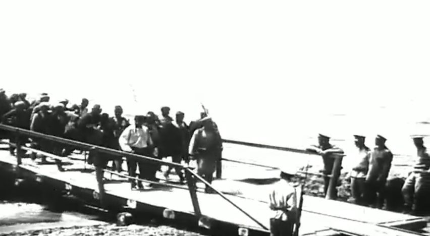 Prisoner-of-war camp in Nargen island